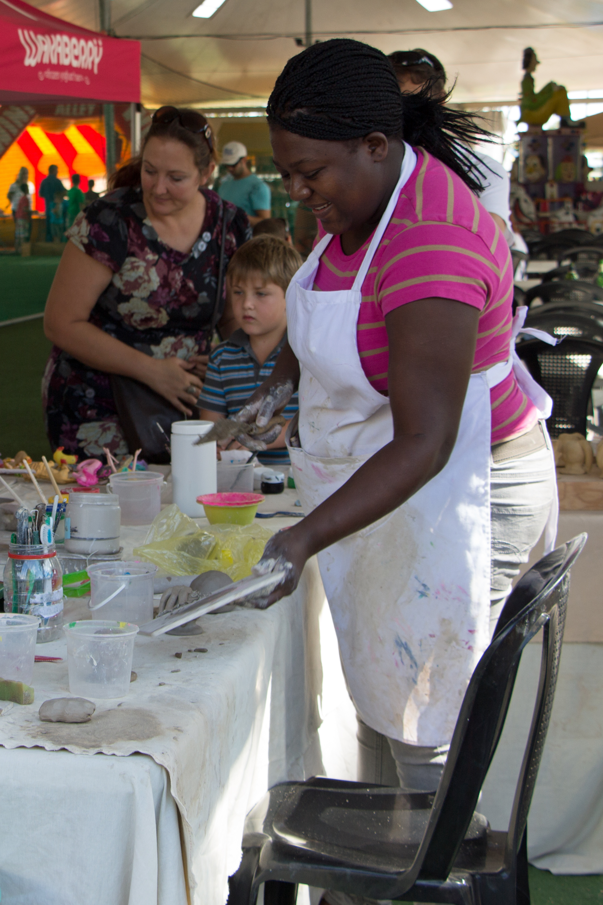 Claymates stall in the Fun Zone of Root44 Market, Stellenbosch, South Africa